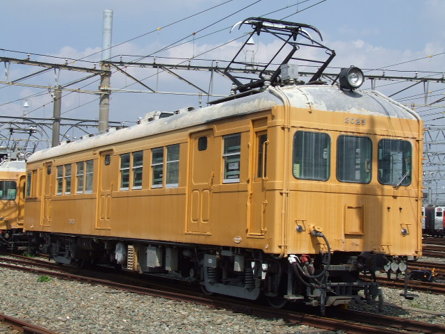 Series 2000-No.2023-,Sagami Railway,Japan